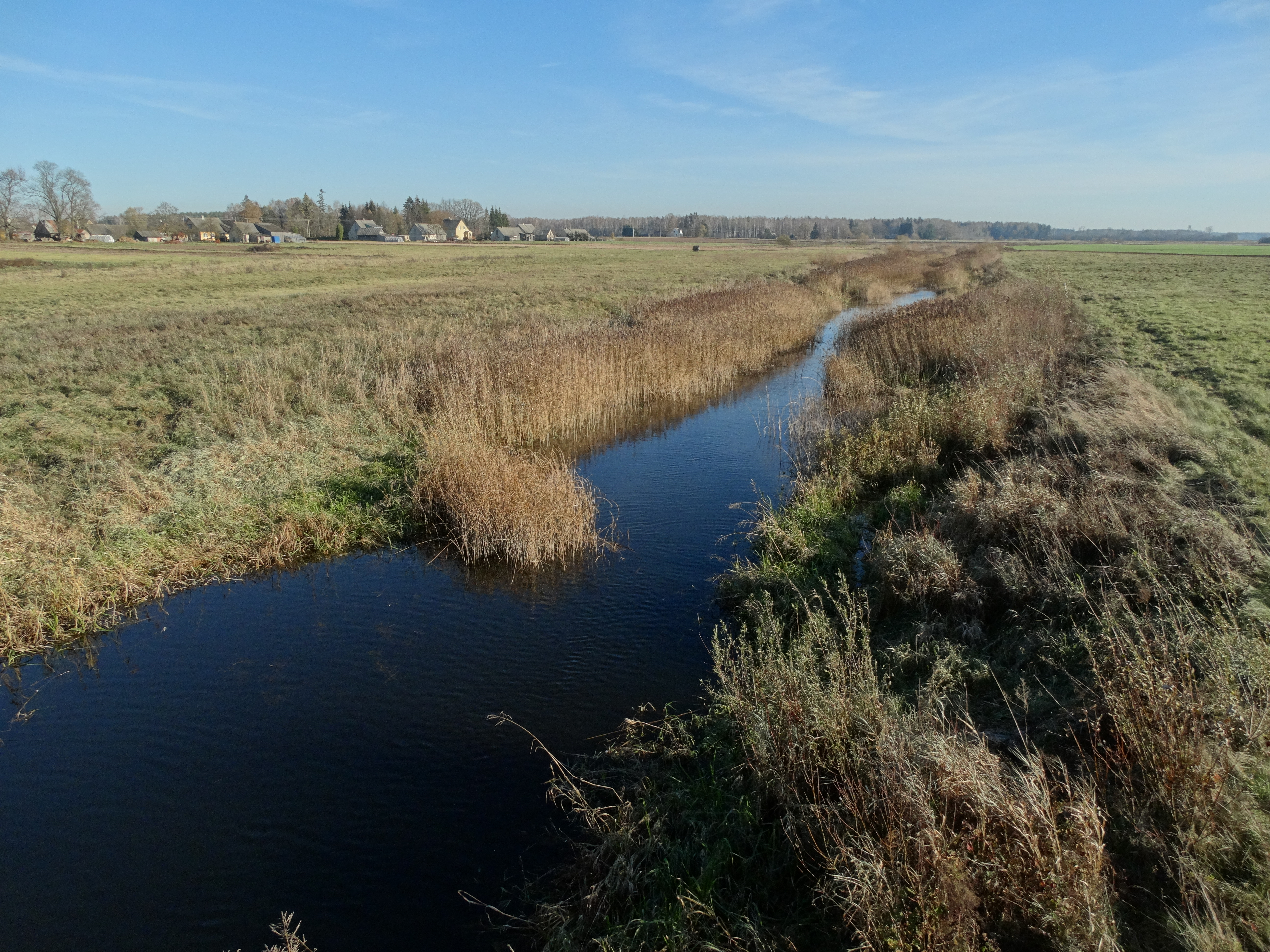 Pyvesa River in Sodeliai, Panevėžys district, Lithuania